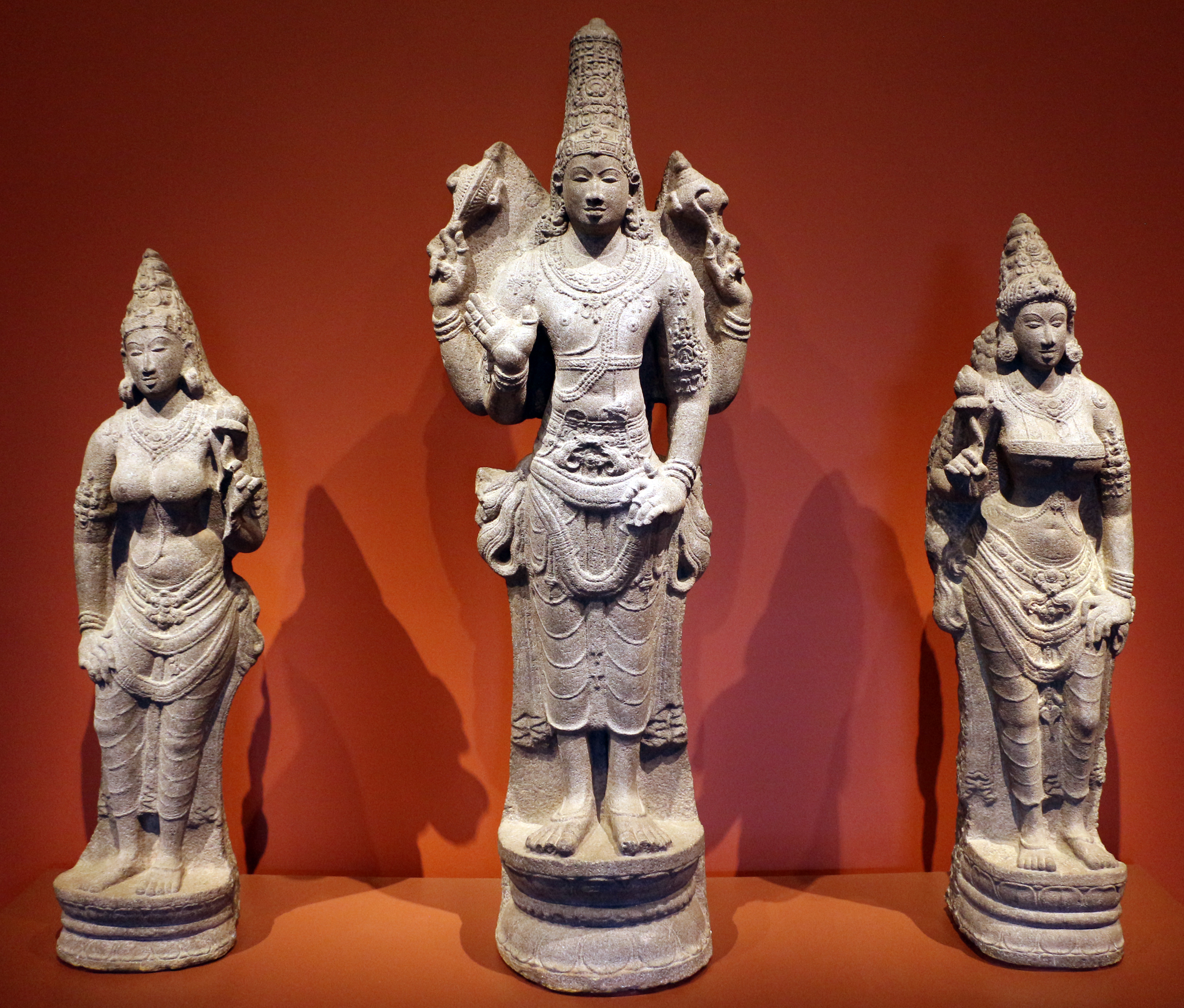 Art of India in the Cleveland Museum of Art